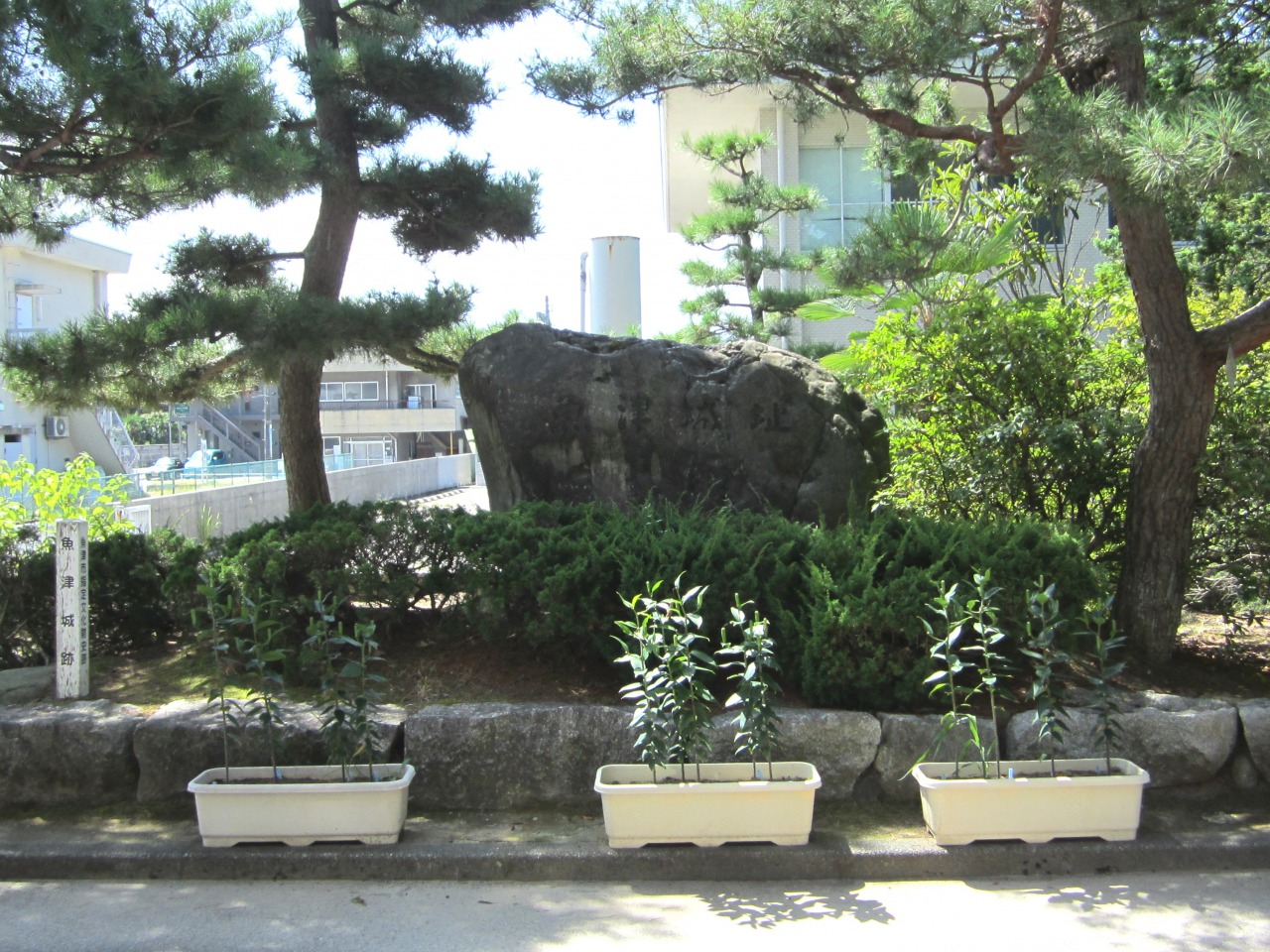 The Site of Uozu Castle in Uozu, Toyama.